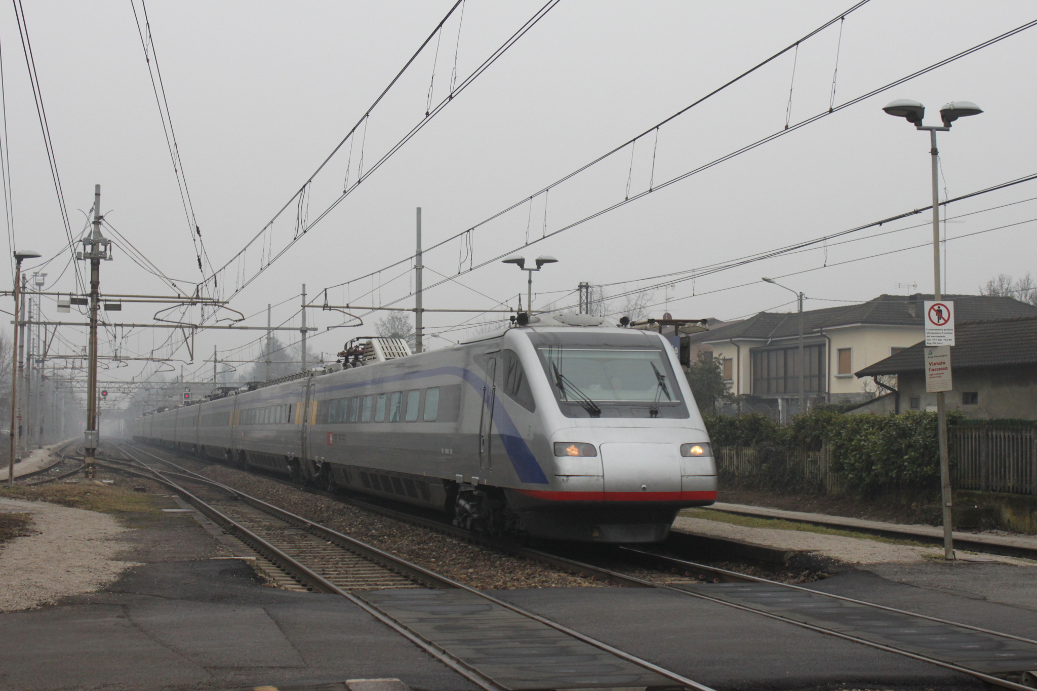 SBB CFF FFS ETR 470 003 passing through Carimate train station while travelling from Milano C.le to Zürich HB as EuroCity 16.